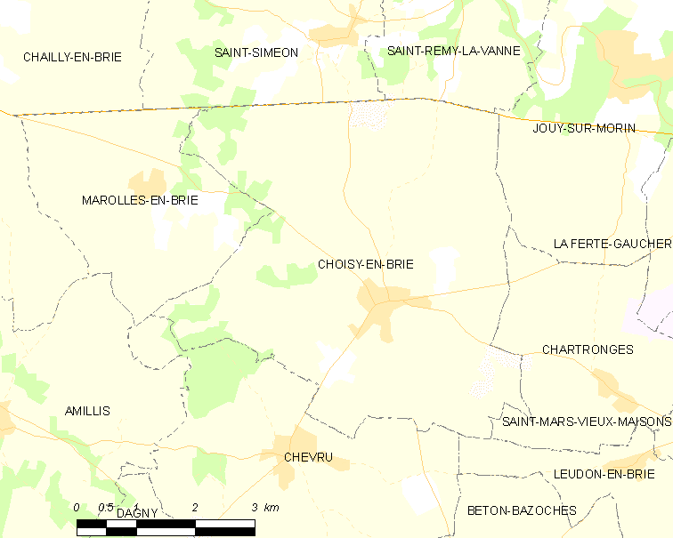 Map of French municipality Choisy-en-Brie